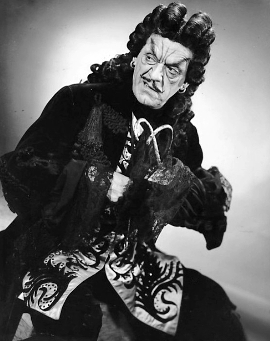 Photo of Boris Karloff as Captain Hook from the Broadway play Peter Pan.